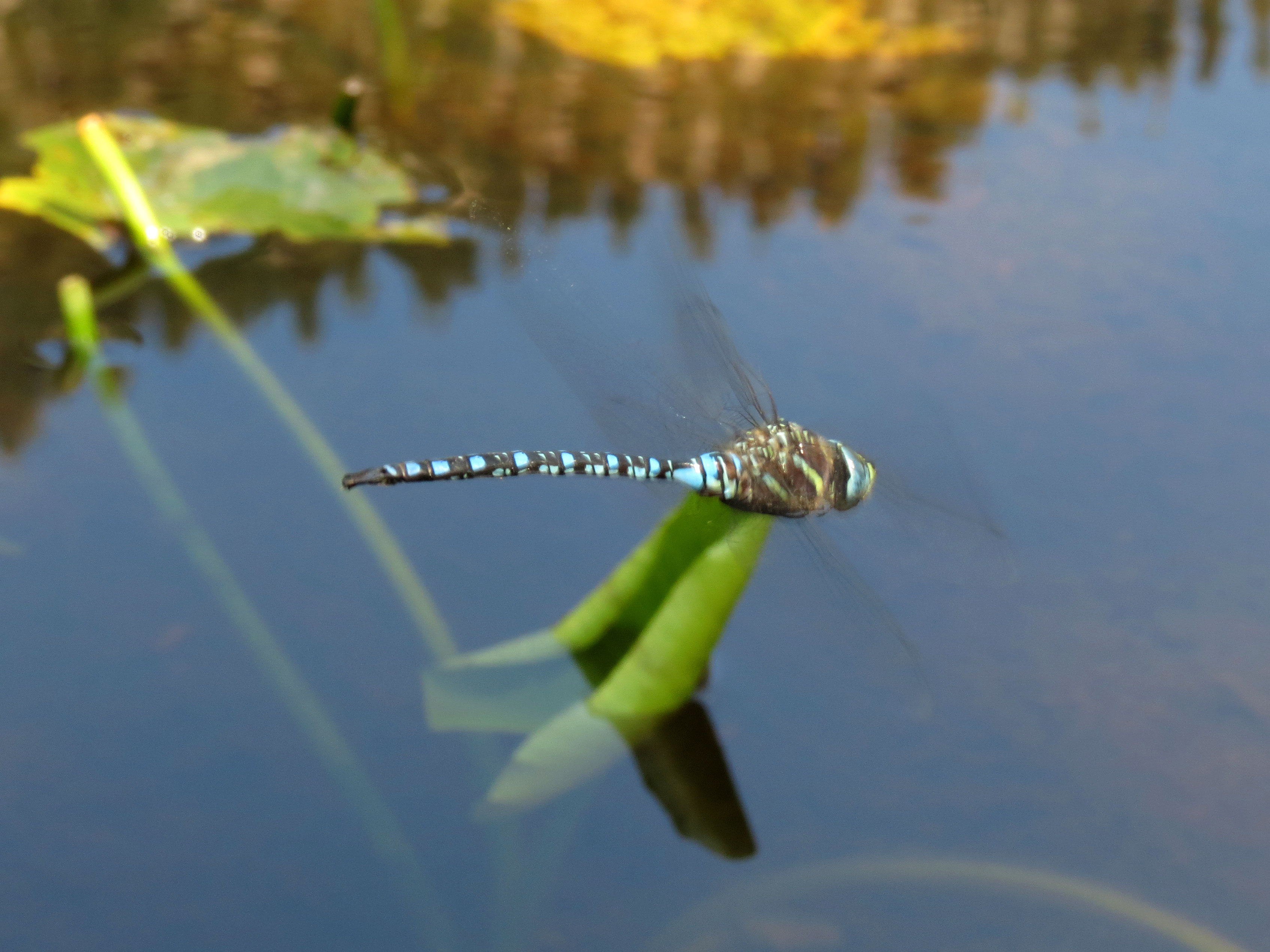 Aeshna sp., Lily Lake, Sawtooth National Forest near Stanley, Idaho.